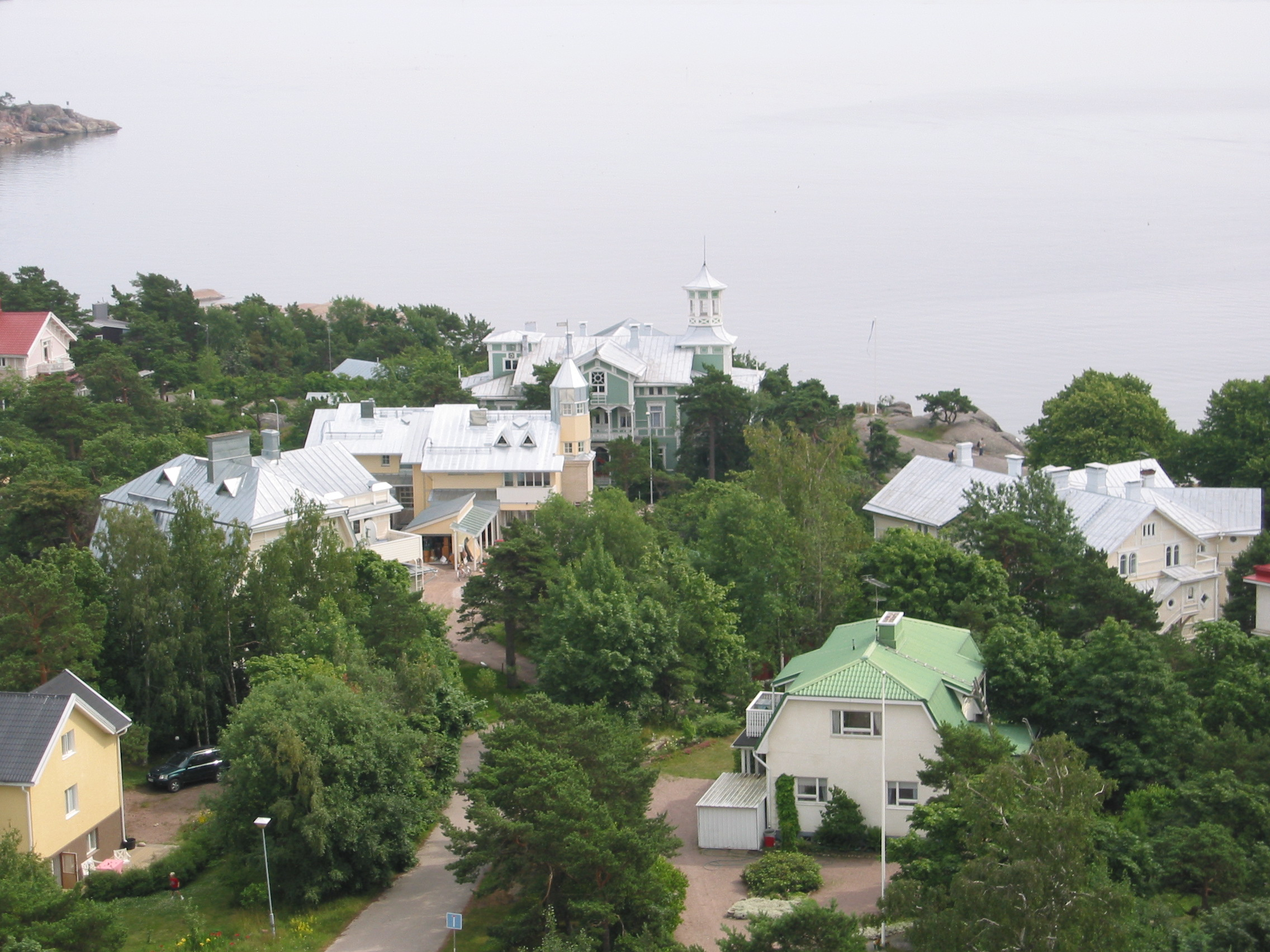 Villas in Hanko, Finland